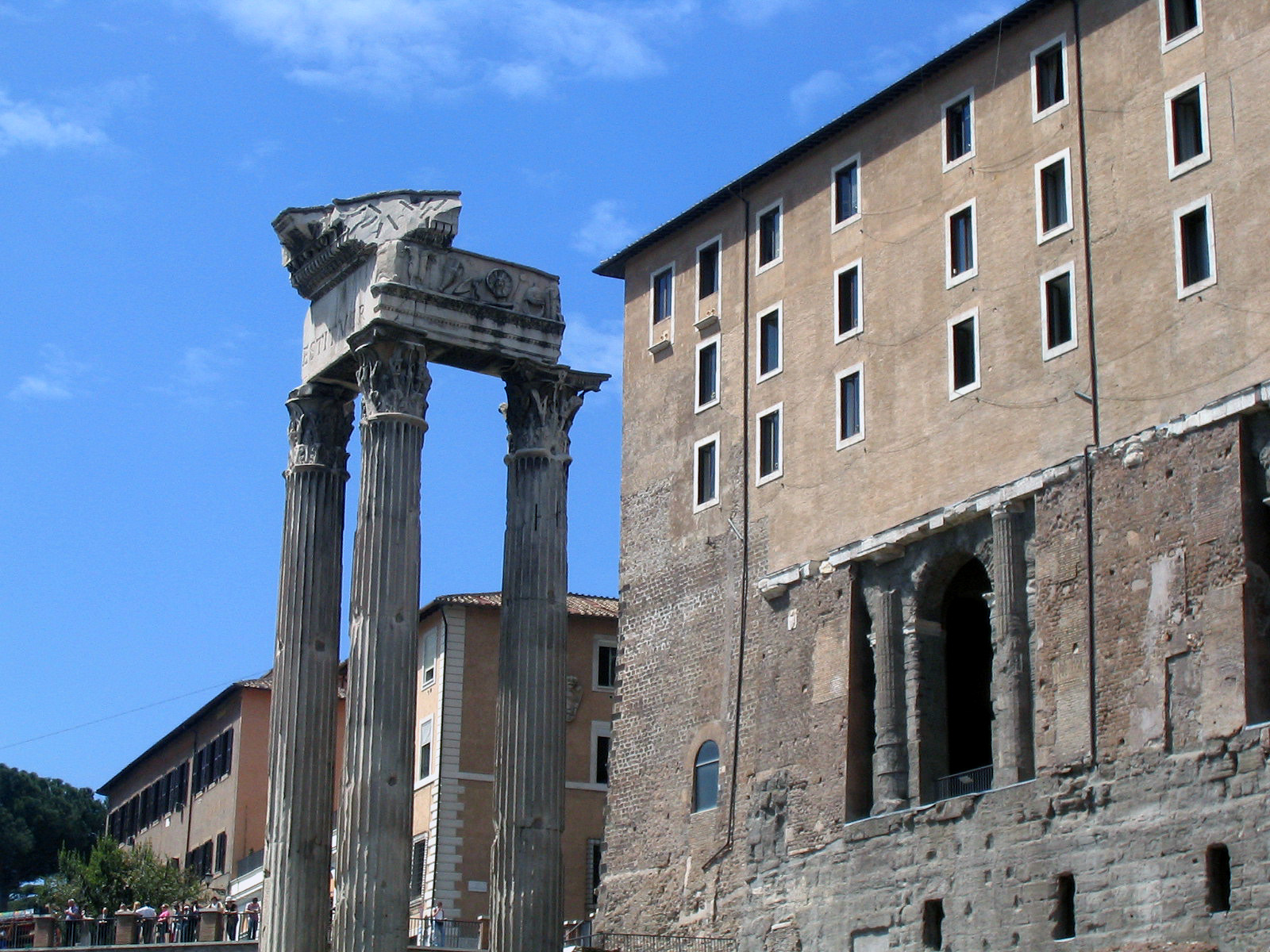 The three columns mark the corner of the temple of the Deified Vespasian, and behind to the right rises the massive back of palazzo Senatorio, Rome's city hall, built atop what used to be called the Tabularium, ancient Rome's Public Record Office.